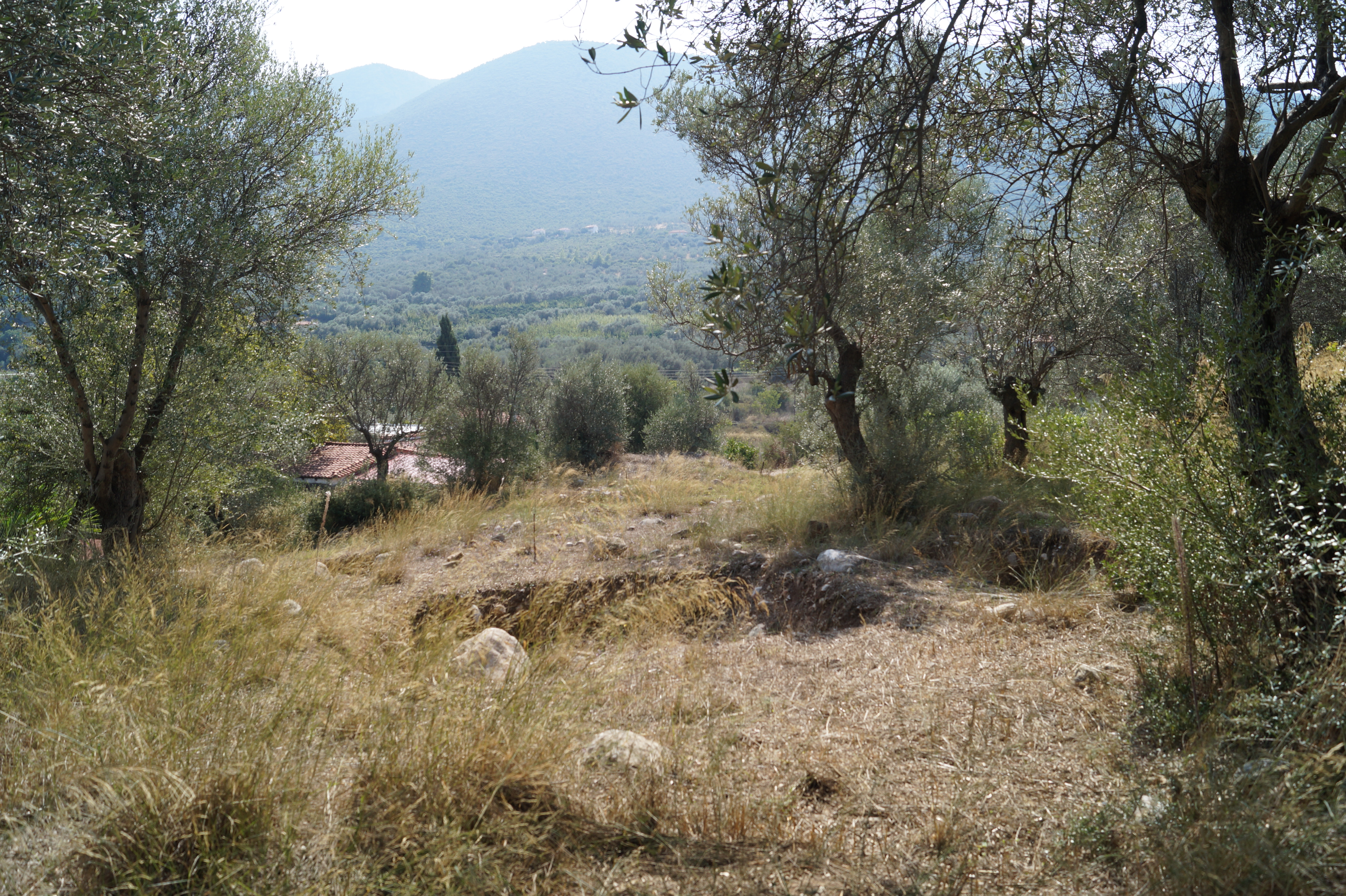 Epano Epidavros, Argolis, Greece: Archaeological site on the Kolotti hill at the western frontier of the village.